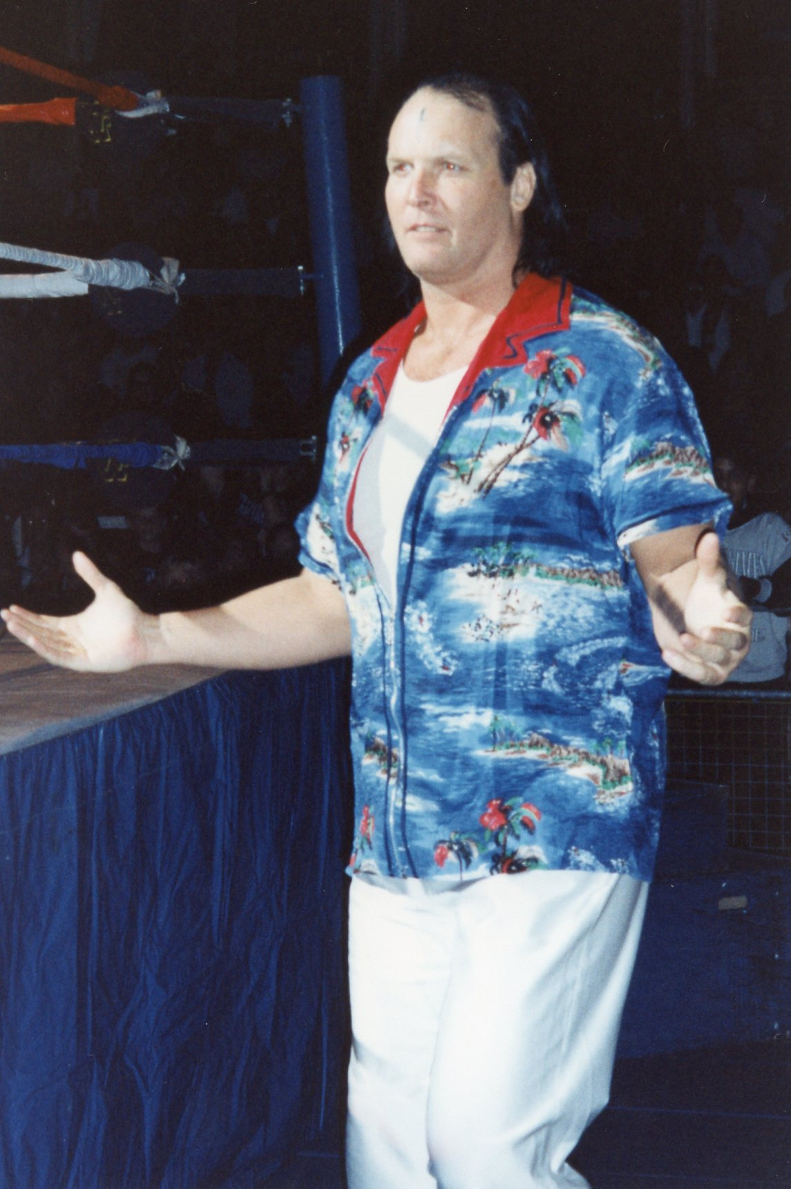 Dan Spivey as "Waylon Mercy" prepares to wrestle at the Royal Albert Hall in London. Taken October 4, 1995.